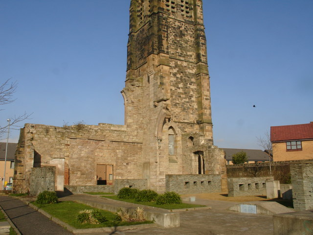 The remains of Townhead-Blochairn Church of Scotland, Roystonhill, Glasgow. Designed for the Church of Scotland by Campbell Douglas and JJ Stevenson and built in 1865. It barely made its centenary before being closed due to low congregation numbers. It had stained-glass windows designed by Glasgow artist Daniel Cottier and made by William Morris & Co.The church was sold into private ownership in 1992 and used as a warehouse. Despite being an A-Listed protected structure, eventually the church building was demolished because of the neglect of the structure. The tower and spire were preserved and the surrounding site turned into a park and play area. The site is gated and locked to prevent access when the nearby nursery on the same site closed.